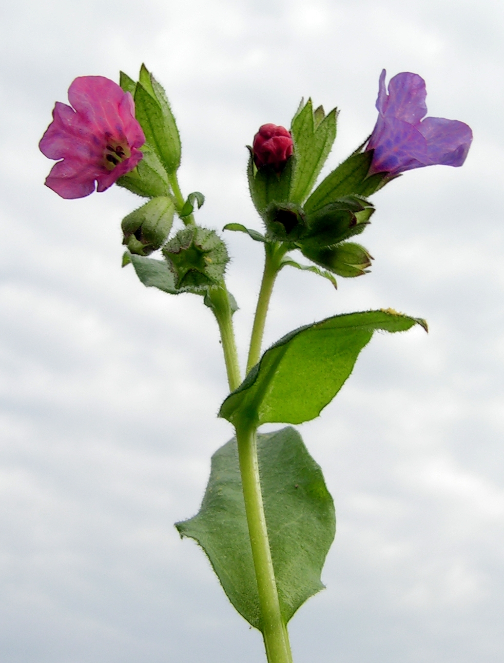 Pulmonaria obscura (family Boraginaceae). Moscow region, Russia.